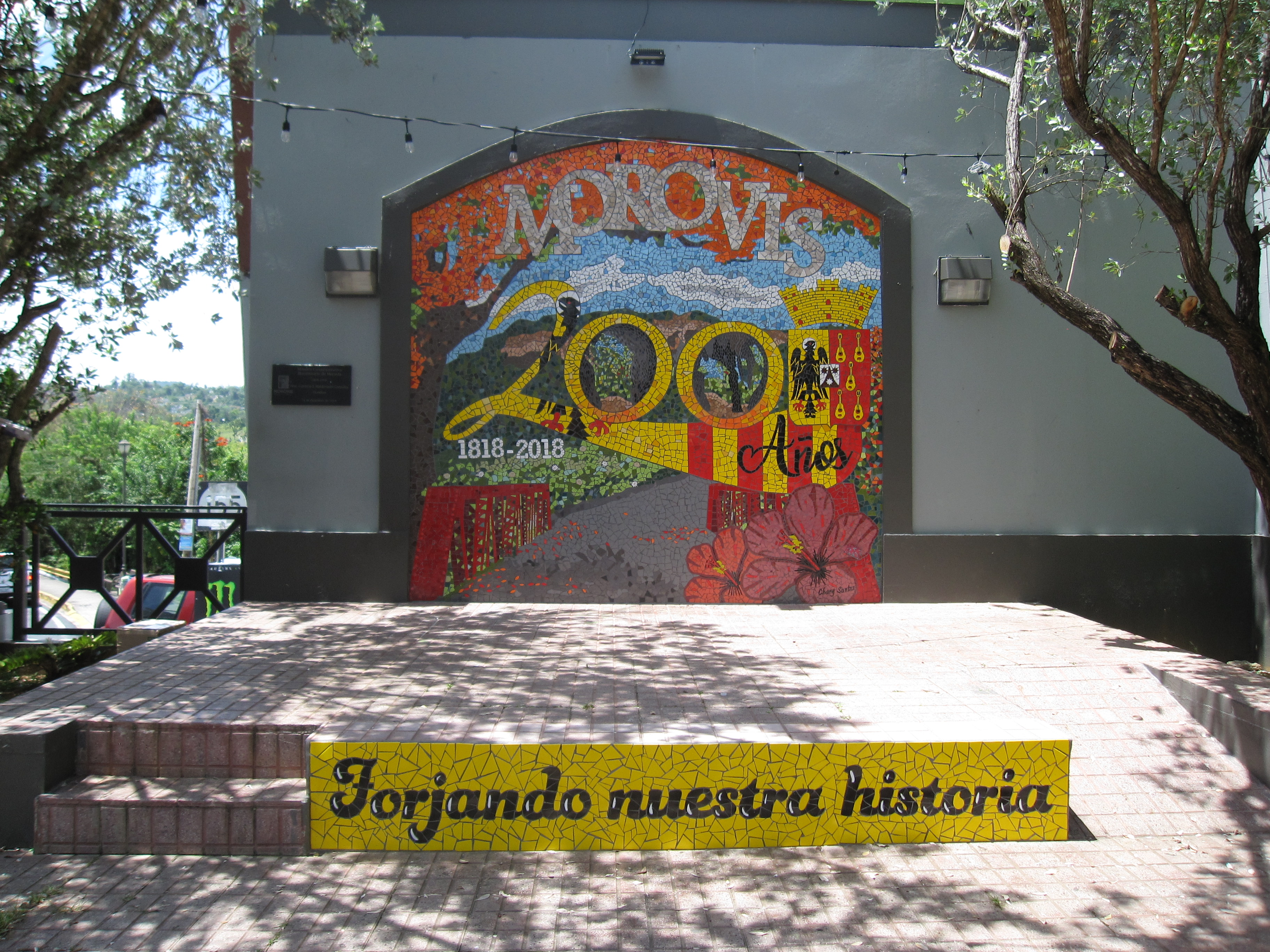 Morovis, Puerto Rico 200 Year anniversary